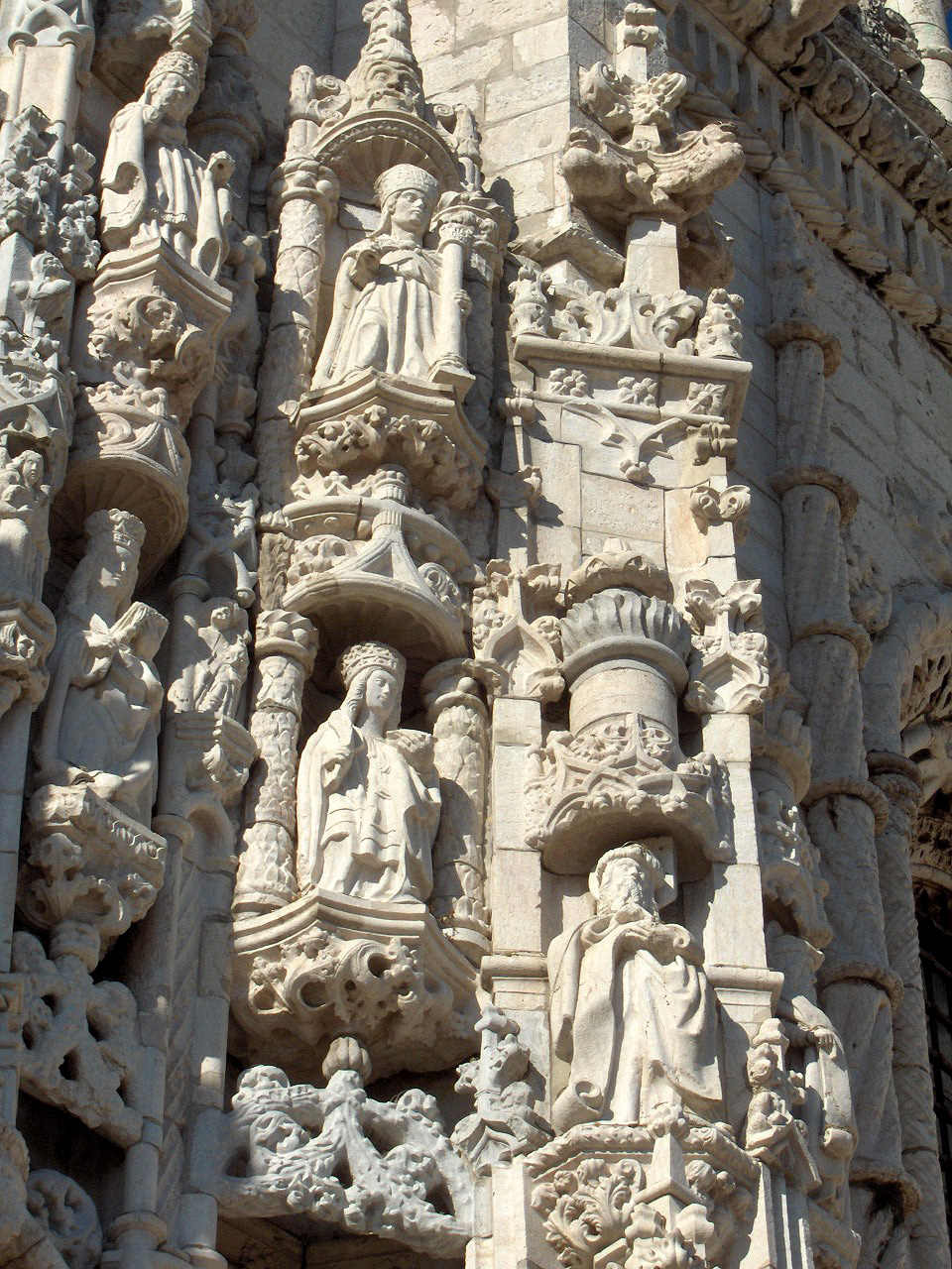 South portal of the church of the Jerónimos Monastery, Belém, Portugal